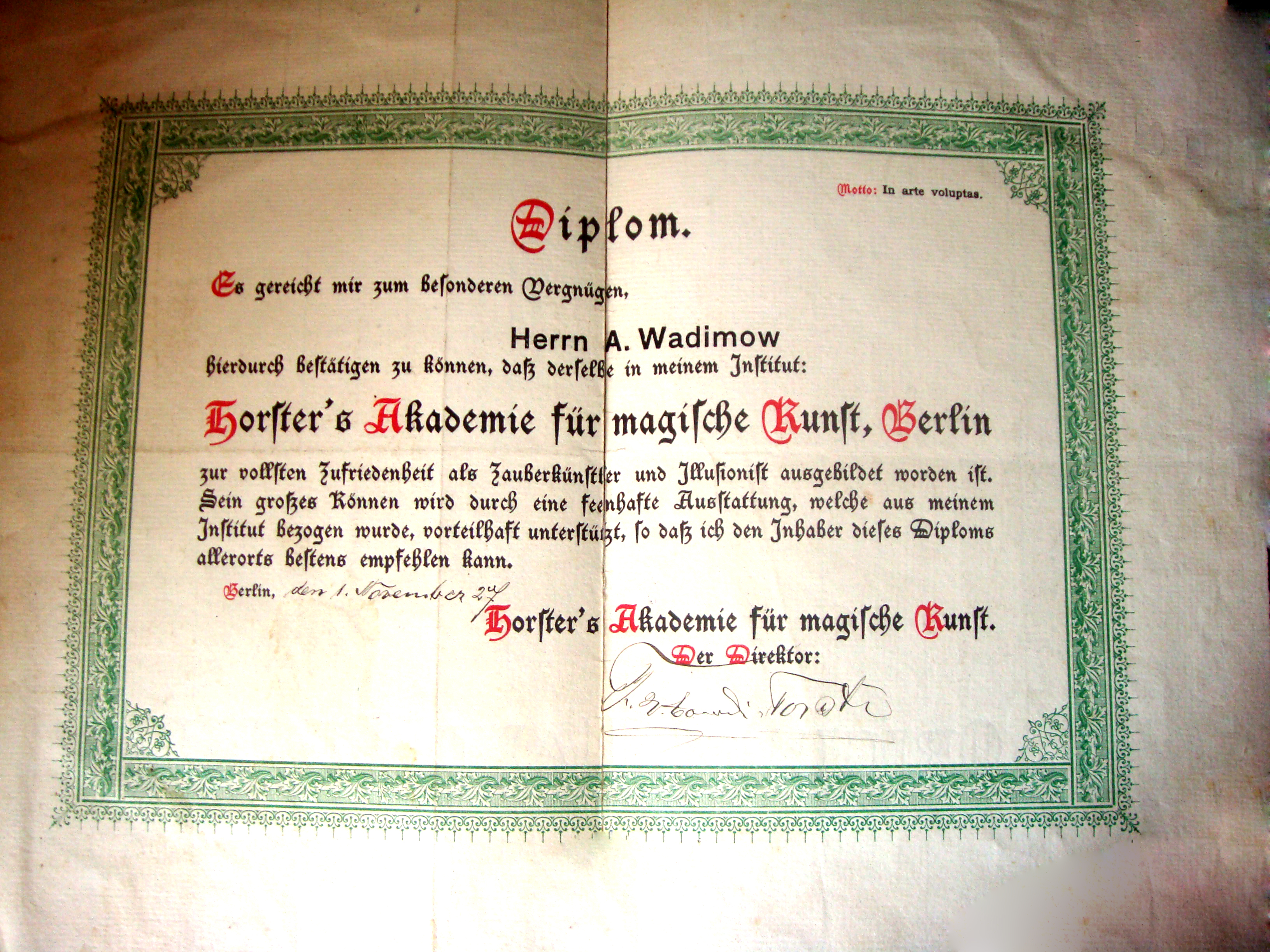 Диплом "Академии Магических Искусств", выданный А.А. Вадимову